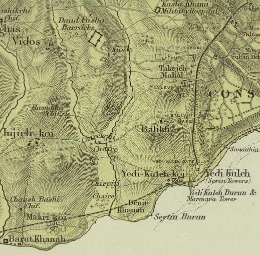 zeytinburnu from edward stanford's map